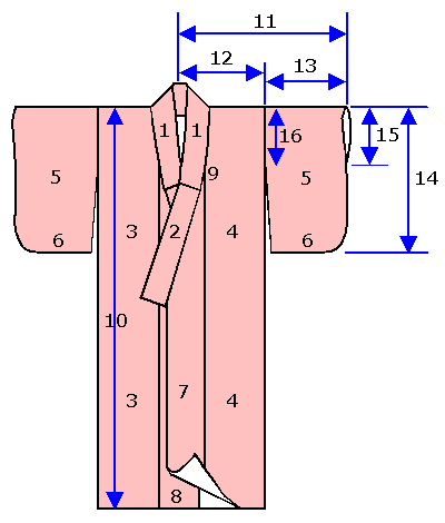 Front View of Kimono's Stylized Structure